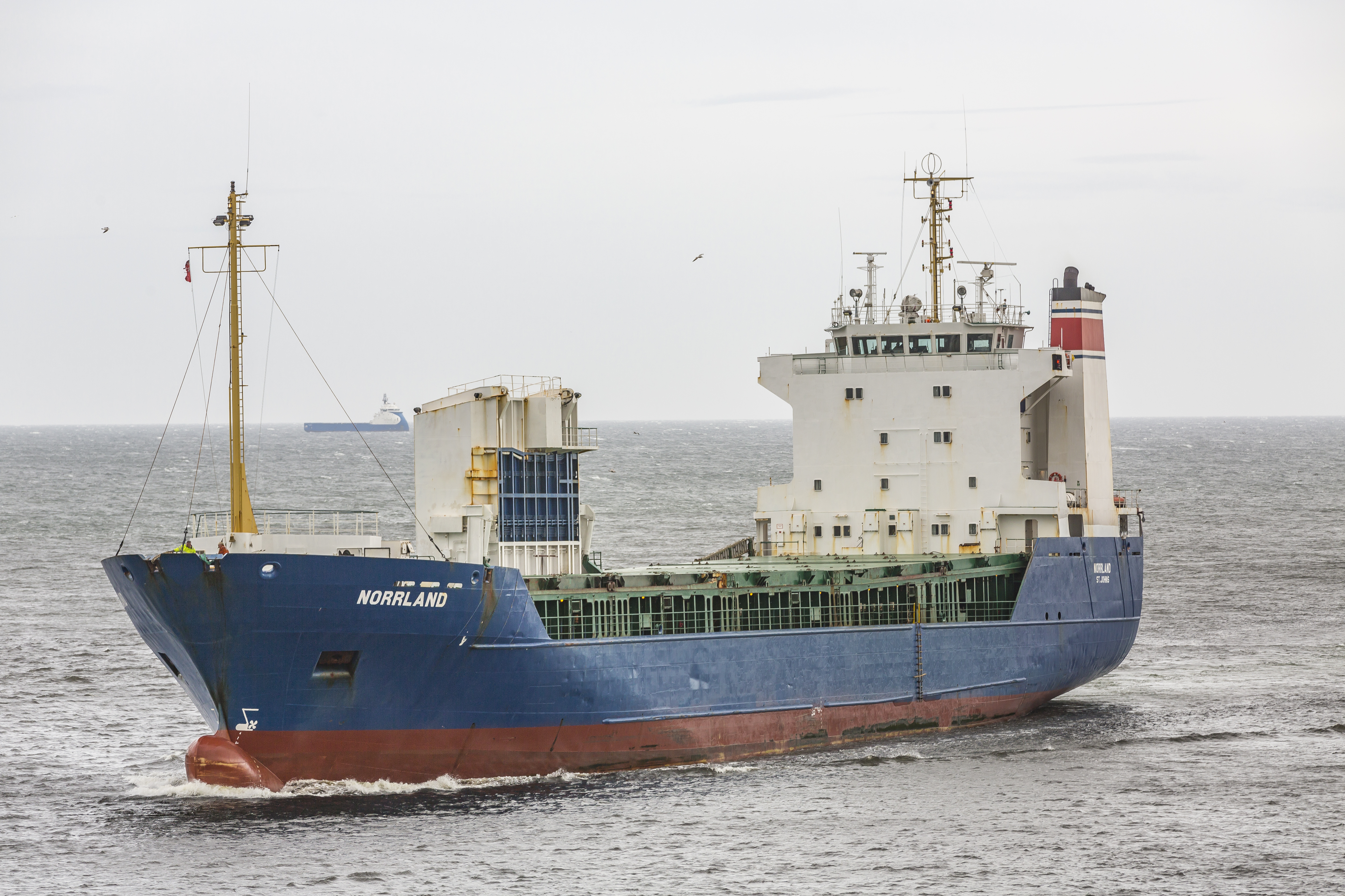 Roll On Roll Off Ferry IMO: 8818764 MMSI: 304010253 Call Sign: V2JA4 Flag: Antigua Barbuda [AG] AIS Type: Cargo Gross Tonnage: 5562 Deadweight: 4355 t Length Overall x Breadth Extreme: 107.4m × 17.27m Year Built: 1990